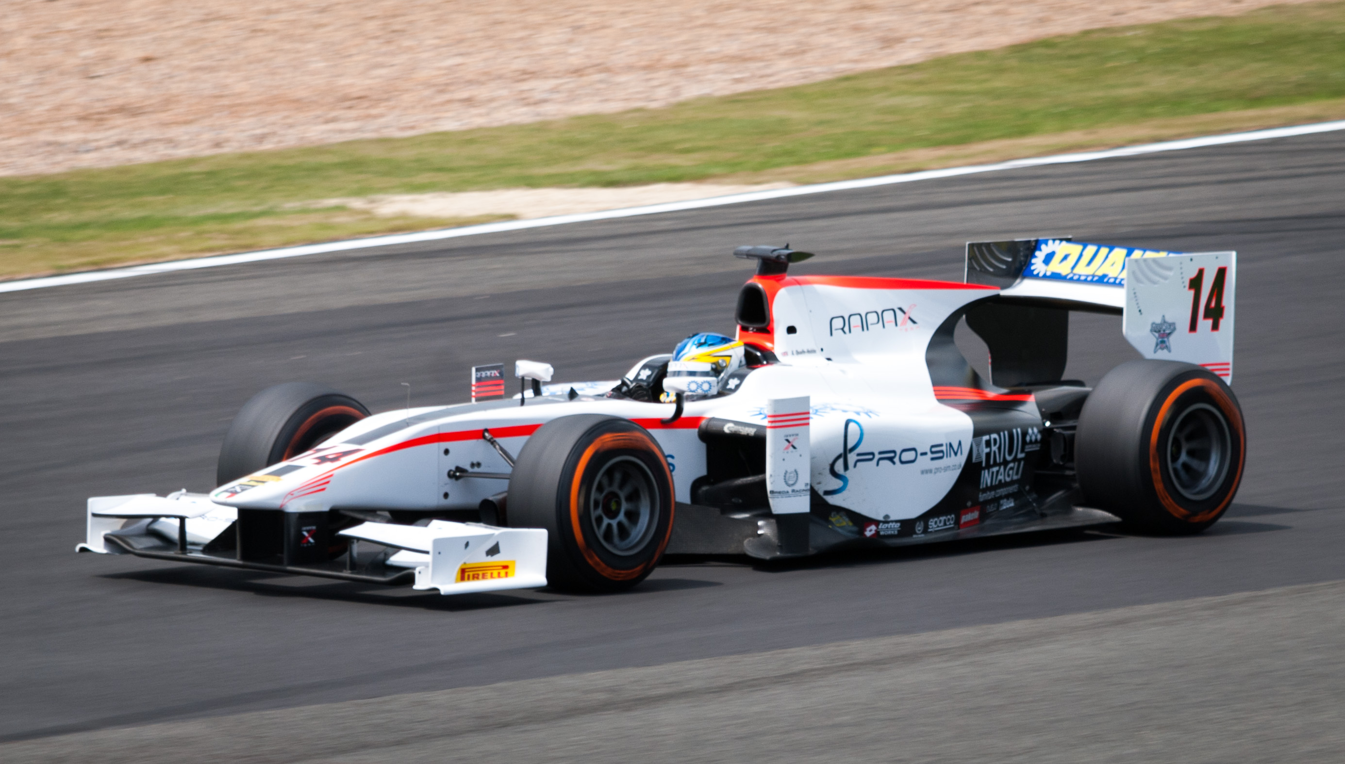 Adrian Quaife-Hobbs driving for Rapax at Silverstone. Round 5 of the 2014 GP2 Series Championship.